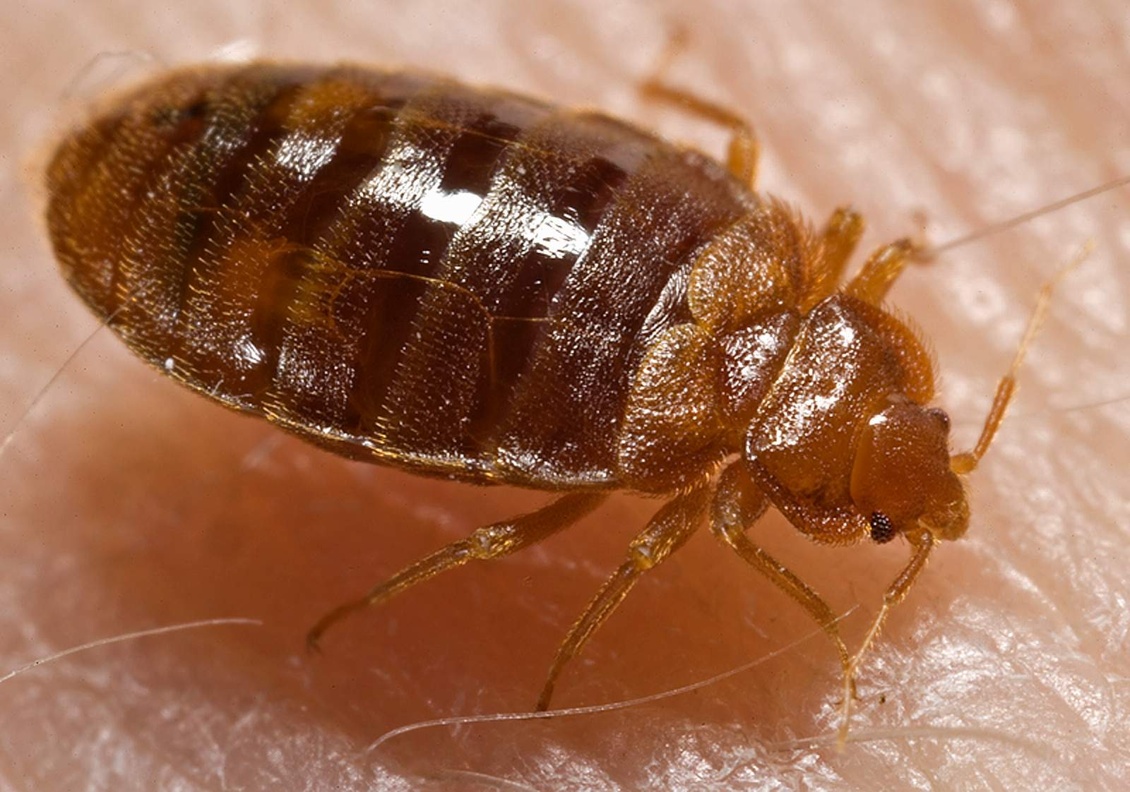 ID#: 9822 This 2006 photograph depicted an oblique-dorsal view of a bed bug nymph (Cimex lectularius) as it was in the process of ingesting a blood meal from the arm of a “voluntary” human host. Bed bugs are not vectors in nature of any known human disease. Although some disease organisms have been recovered from bed bugs under laboratory conditions, none have been shown to be transmitted by bed bugs outside of the laboratory. The common bed bug is found worldwide. Infestations are common in the developing world, occurring in settings of unsanitary living conditions and severe crowding. In North America and Western Europe, bed bug infestations became rare during the second half of the 20th century and have been viewed as a condition that occurs in travelers returning from developing countries. However, anecdotal reports suggest that bed bugs are increasingly common in the United States, Canada, and the United Kingdom. C. lectularius inject saliva into the blood stream of their host to thin the blood, and to prevent coagulation. It is this saliva that causes the intense itching and welts. The delay in the onset of itching gives the feeding bed bug time to escape into cracks and crevices. In some cases, the itchy bites can develop into painful welts that last several days. Bed bug bites are difficult to diagnose due to the variability in bite response between people, and due to the change in skin reaction for the same person over time. It is best to collect and identify bed bugs to confirm bites. Bed bugs are responsible for loss of sleep, discomfort, disfiguring from numerous bites and occasionally bites may become infected.